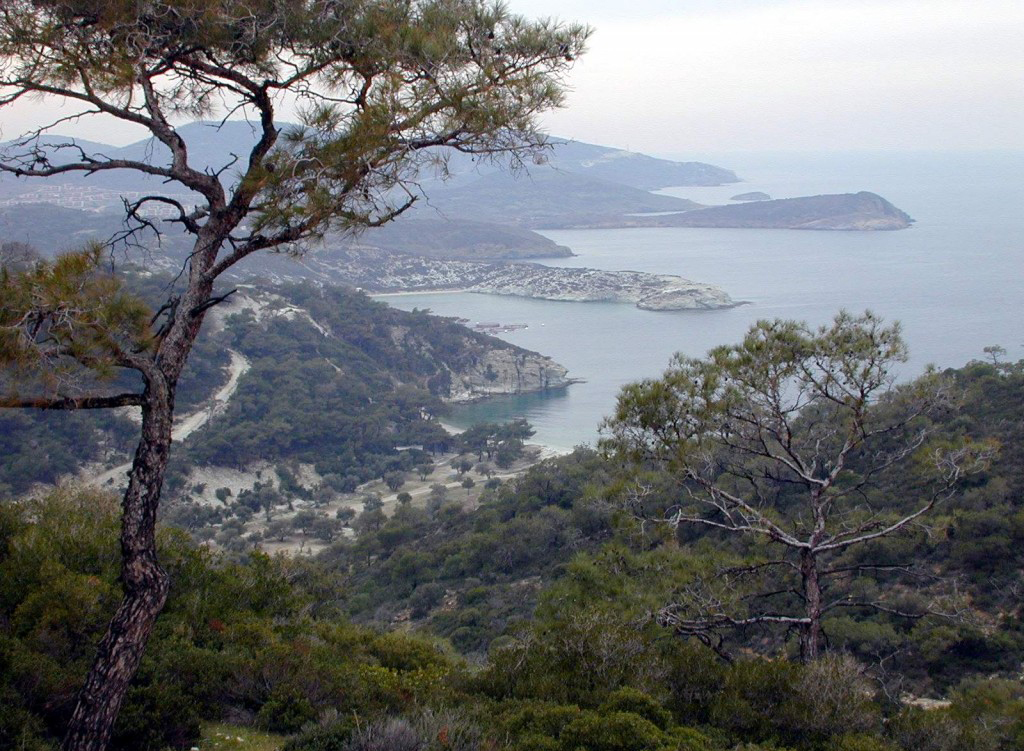 Foça (ancient Phocaea) near İzmir on Turkey's Aegean coast